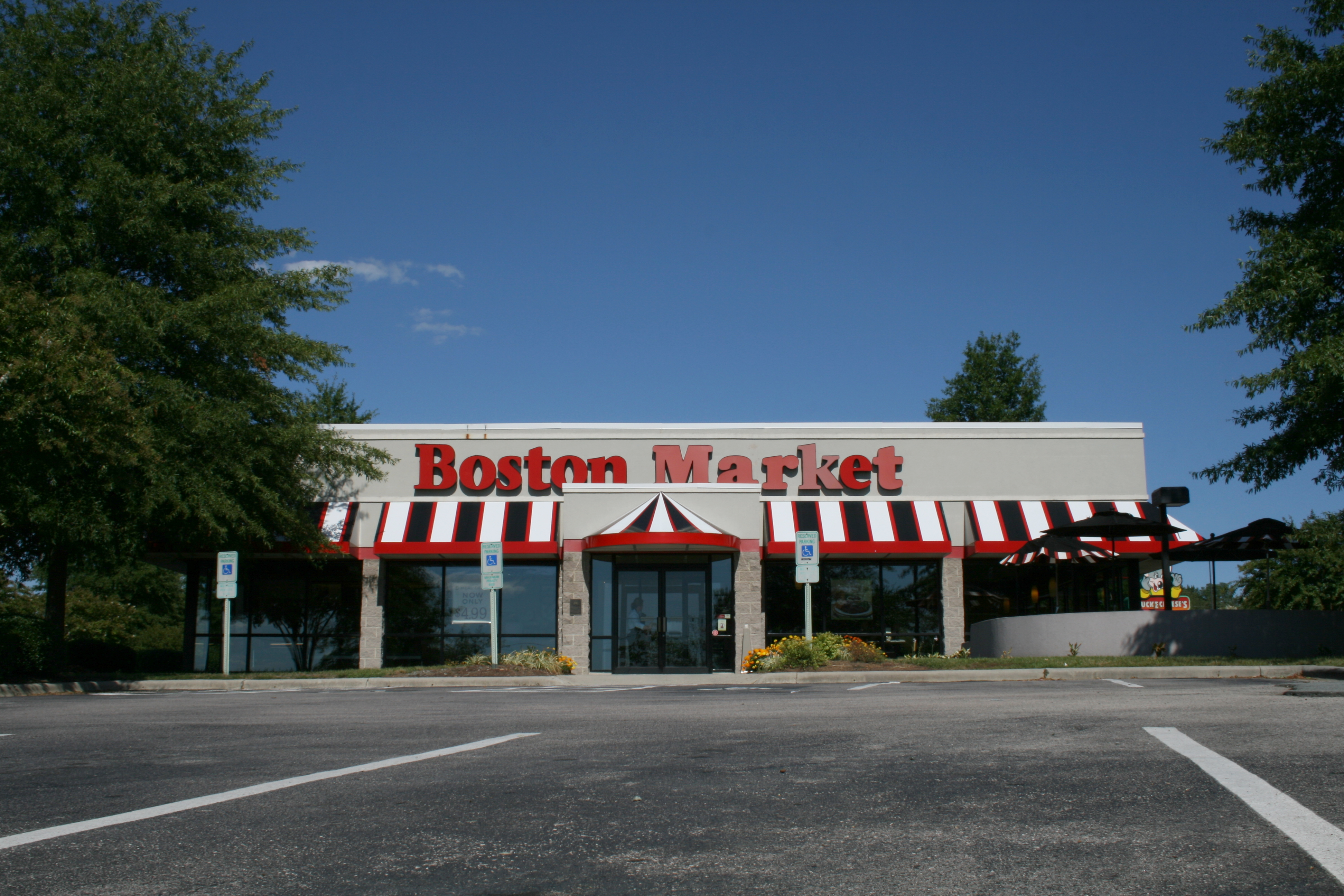 Boston Market in Durham, North Carolina.